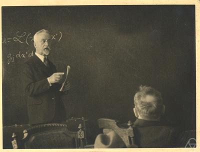 Élie Cartan's photo, album linked to the Mathematical Seminar in Hamburg (Germany)